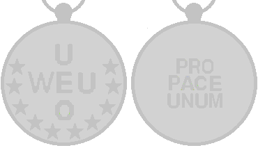 A graphic representation of the obverse and reverse of the Western European Union Mission Medal.